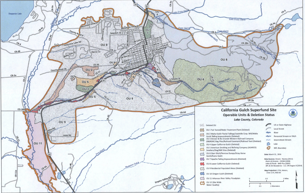 Oversized (17" x 11") Map of California Gulch Superfund site, Operable Units and Deletion Status, March 31, 2016